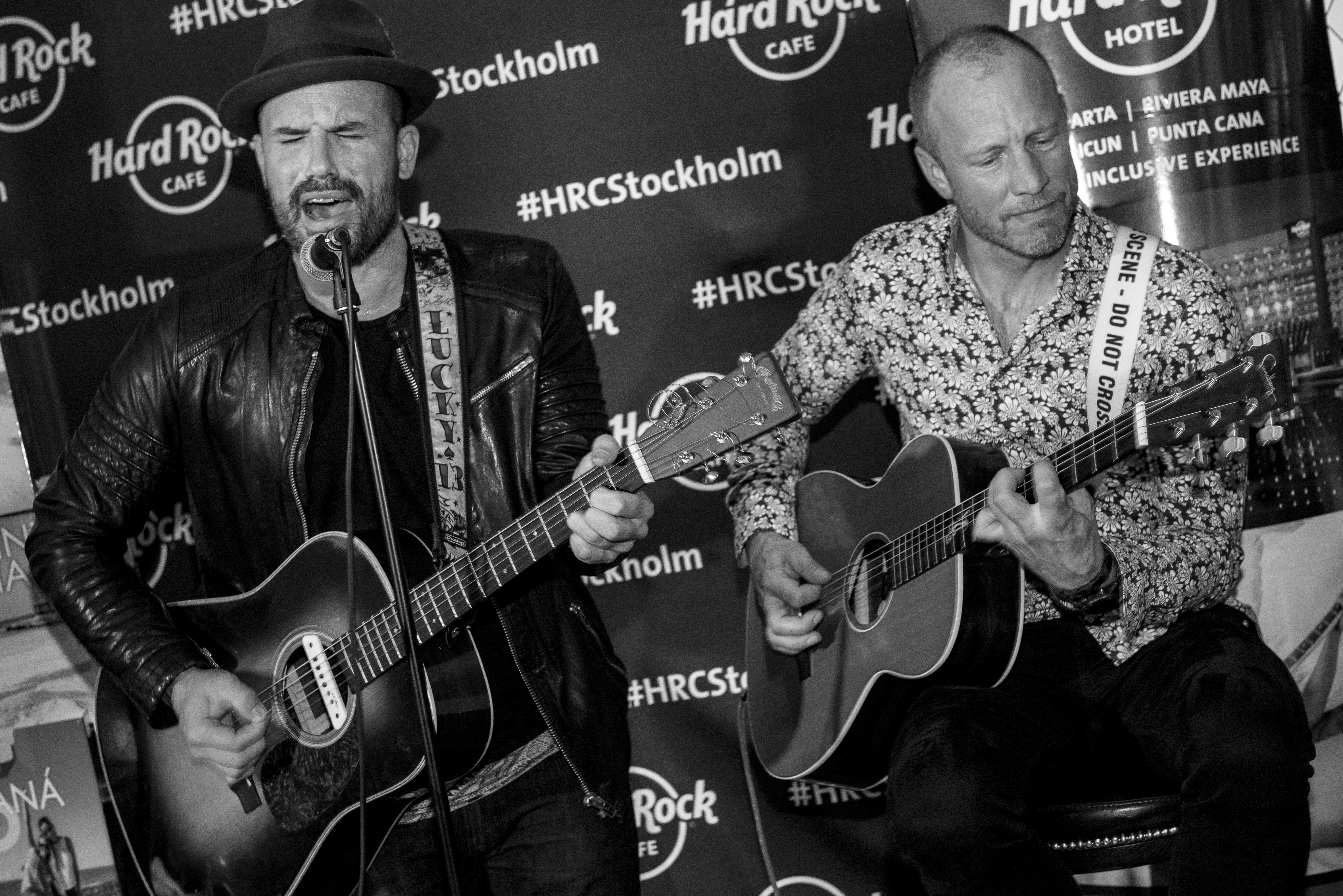 Hardrock Café - Martin Stenmarck, Andreas Danielsson